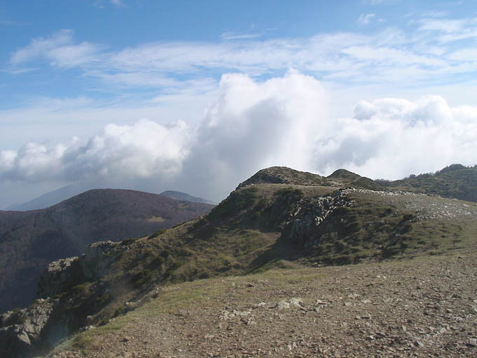 View from the summit of El Matagalls in Montseny, Spain. Photograph taken by myself in November 2004.